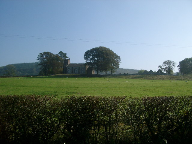 Buittle Old Kirk, near Castle Douglas. Munches Hill in the background